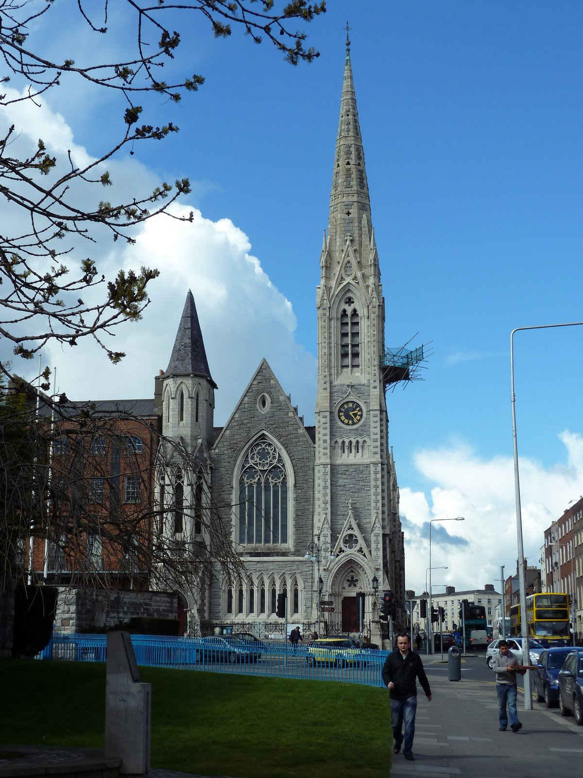 Abbey Presbyterian Church, Parnell Square (Frederick Street), Dublin